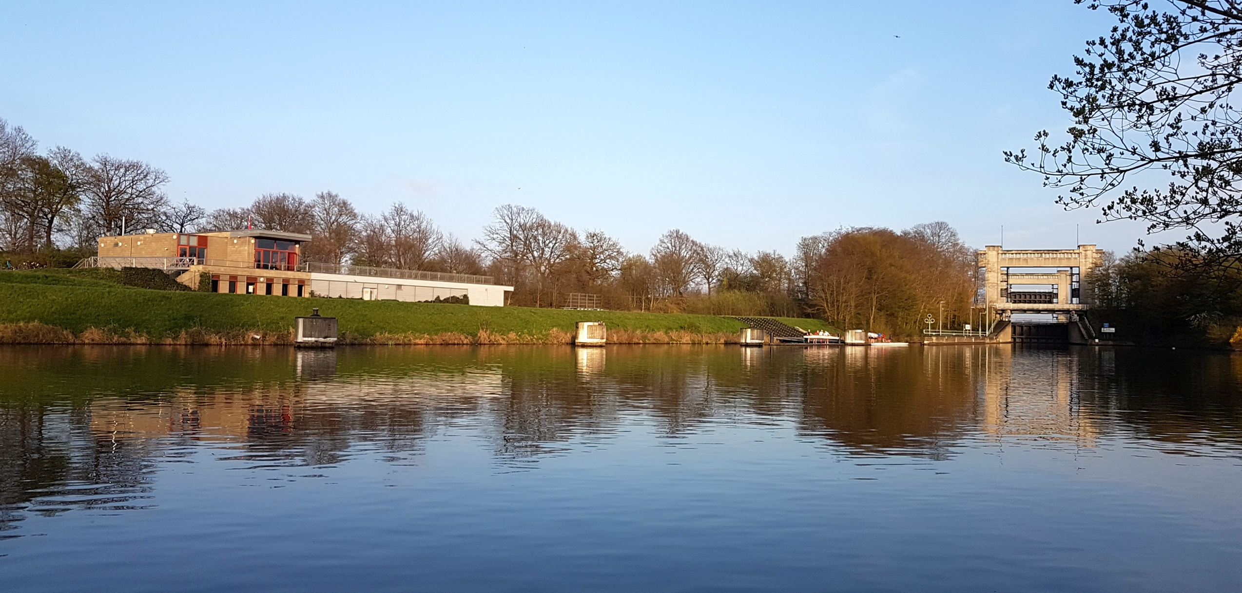 Rowers of M.S.R.V. Saurus taking their boat from Zuid-Willemsvaart to the boathouse, Maastricht, Netherlands. On the right the canal lock at Bosscherweg.